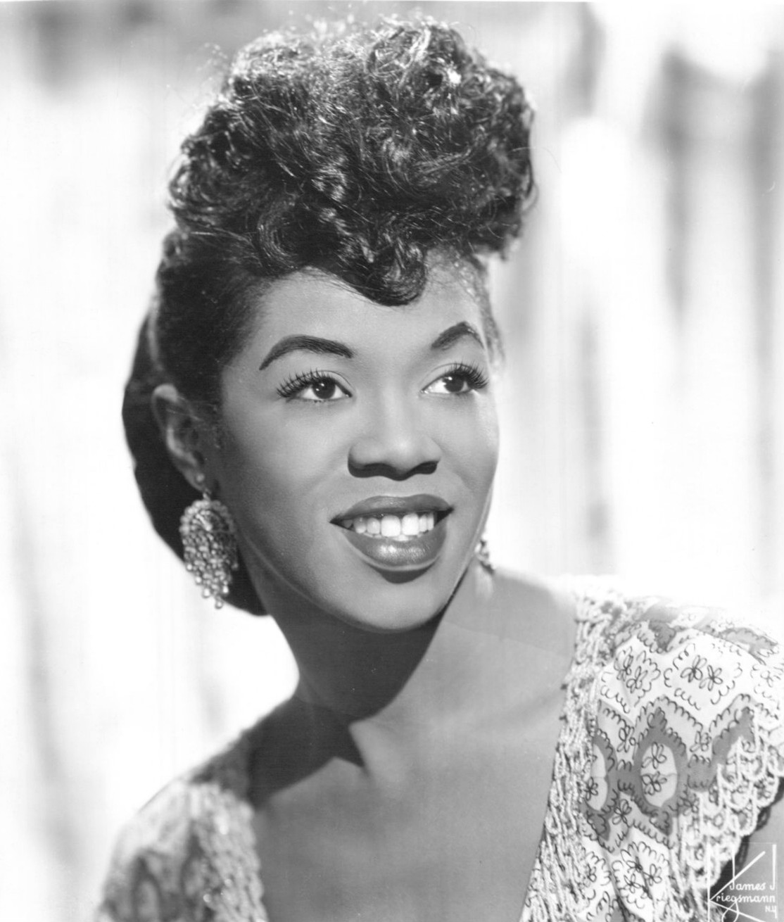 Photo of singer Sarah Vaughan.